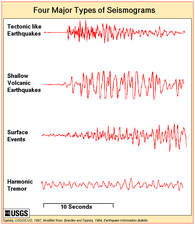 Four major types of seismograms, or "seismic signatures," are recognized from seismometers in the vicinity of Mount St. Helens.